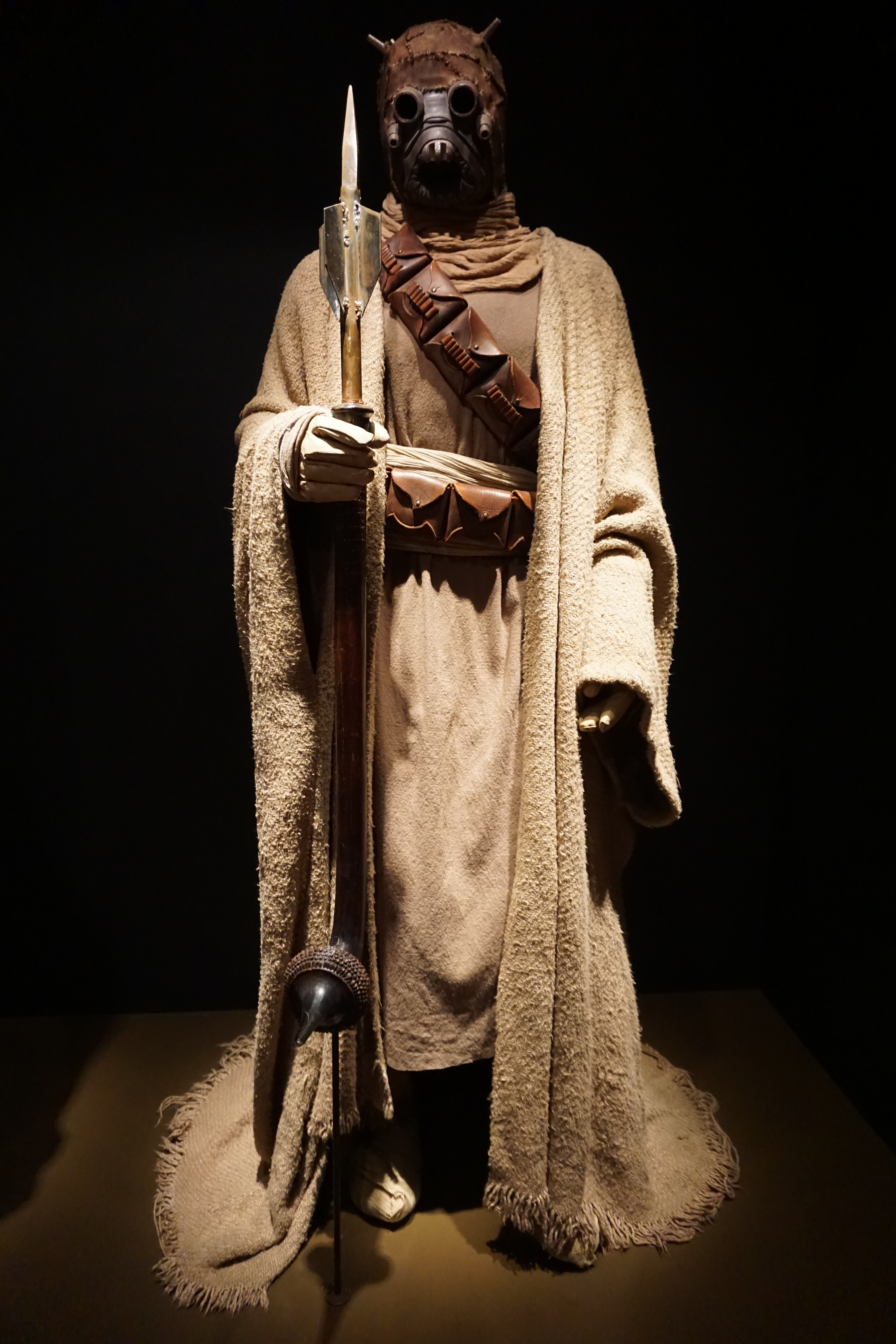 A Tusken Raider male costume with gaffi from Star Wars: Episode IV – A New Hope on display at the Star Wars and the Power of Costume traveling exhibit at the Detroit Institute of Arts in Detroit, Michigan (United States).